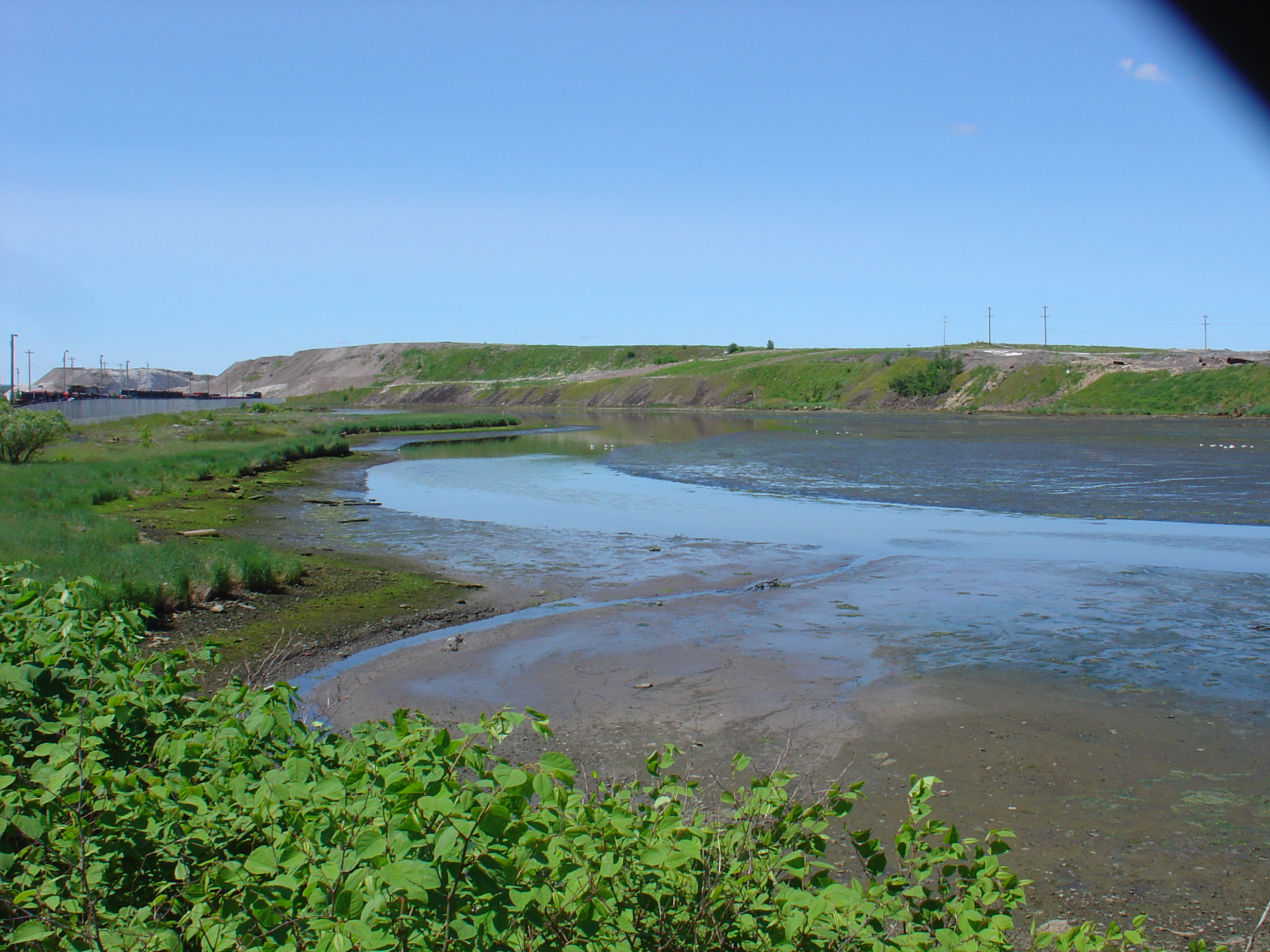 Tar Pond Sydney Nova Scotia. This is the most polluted site in North America.